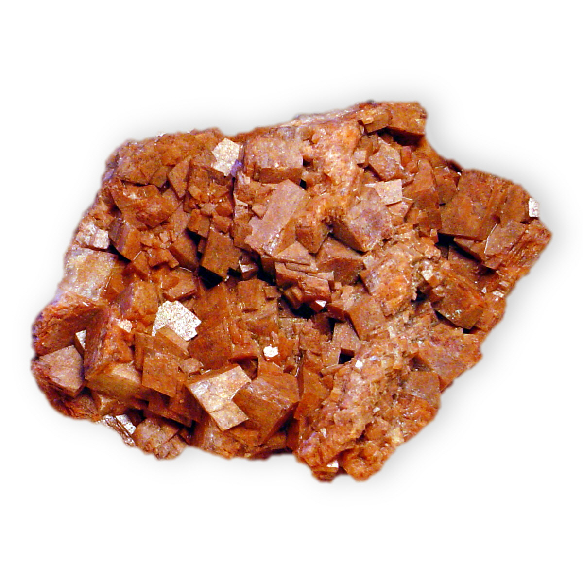 These mineral images are free to use how you wish.